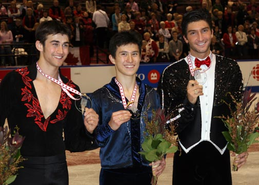 Skate_Canada_2008_mens_podium. From left to right: Ryan Bradley (2nd); Patrick Chan (1st); Evan Lysacek (3rd)